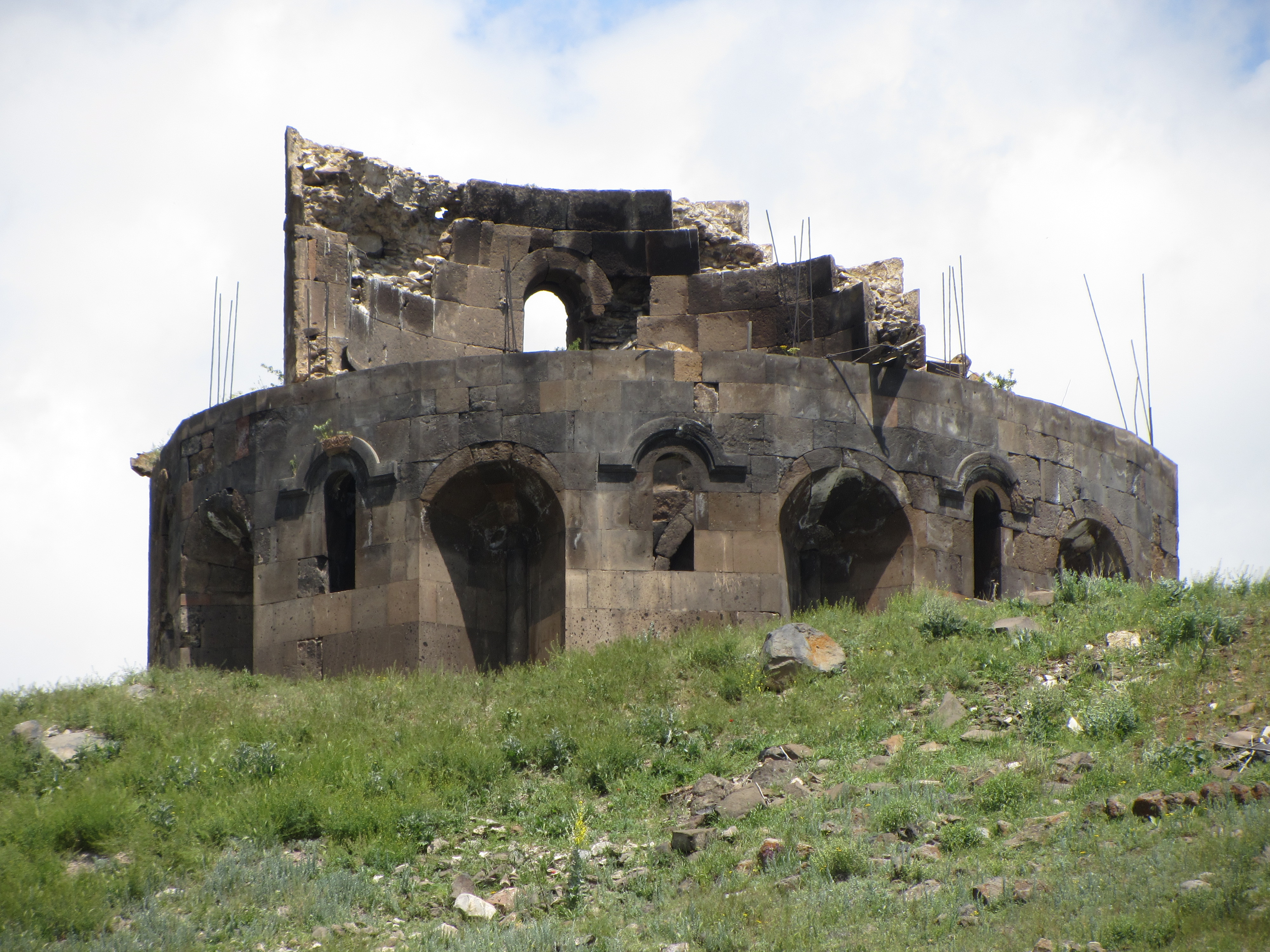 Zoravar (Surb Teodoros, Gharghavank) Church, Zoravan, 7c.